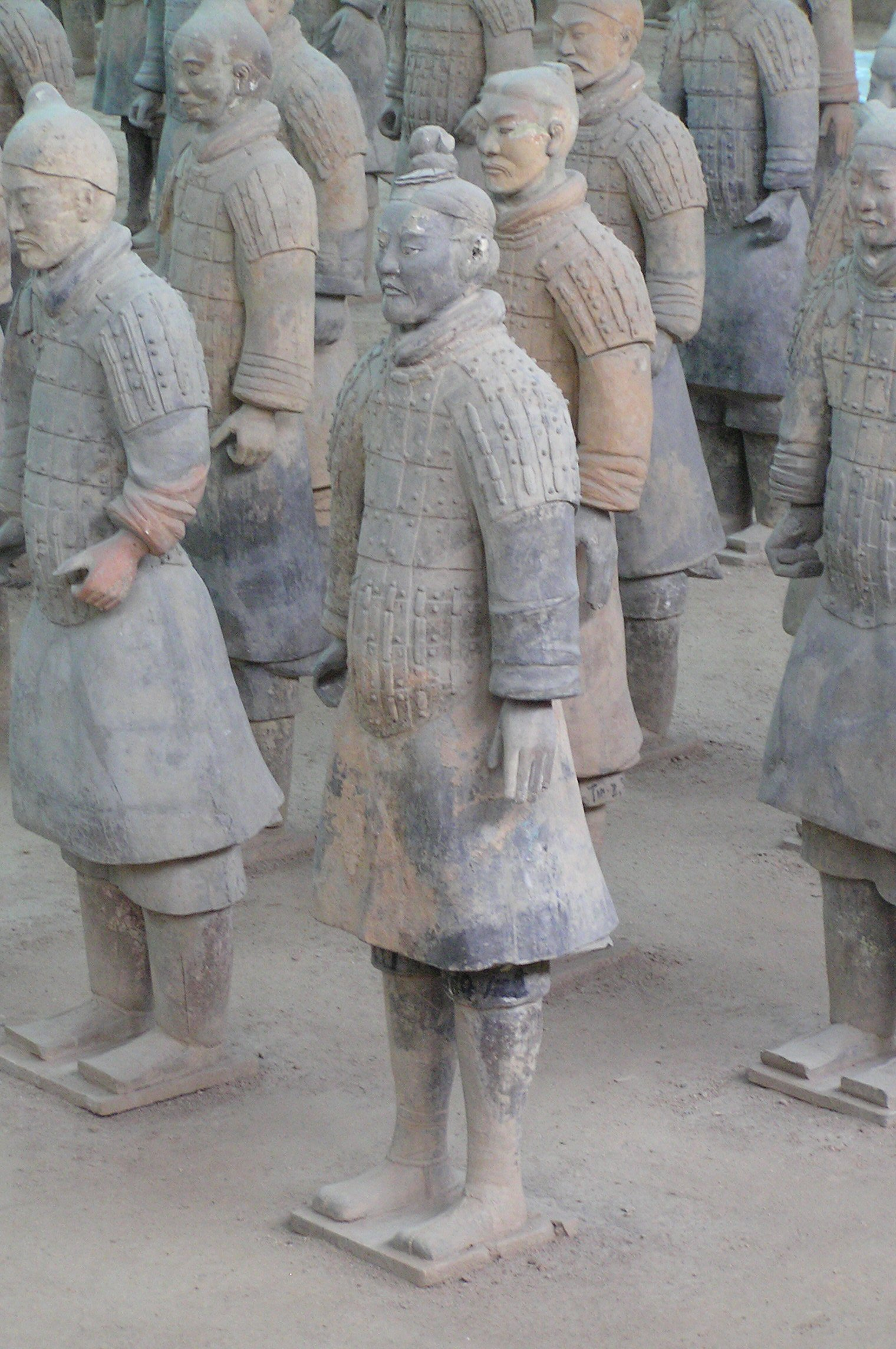 View of a group of warriors at the end of the Pit 1 (reconstruction area in Xian Terracotta Warriors Museum, Xian, China) Author: Mr. Tickle Date: 07/22, 2005